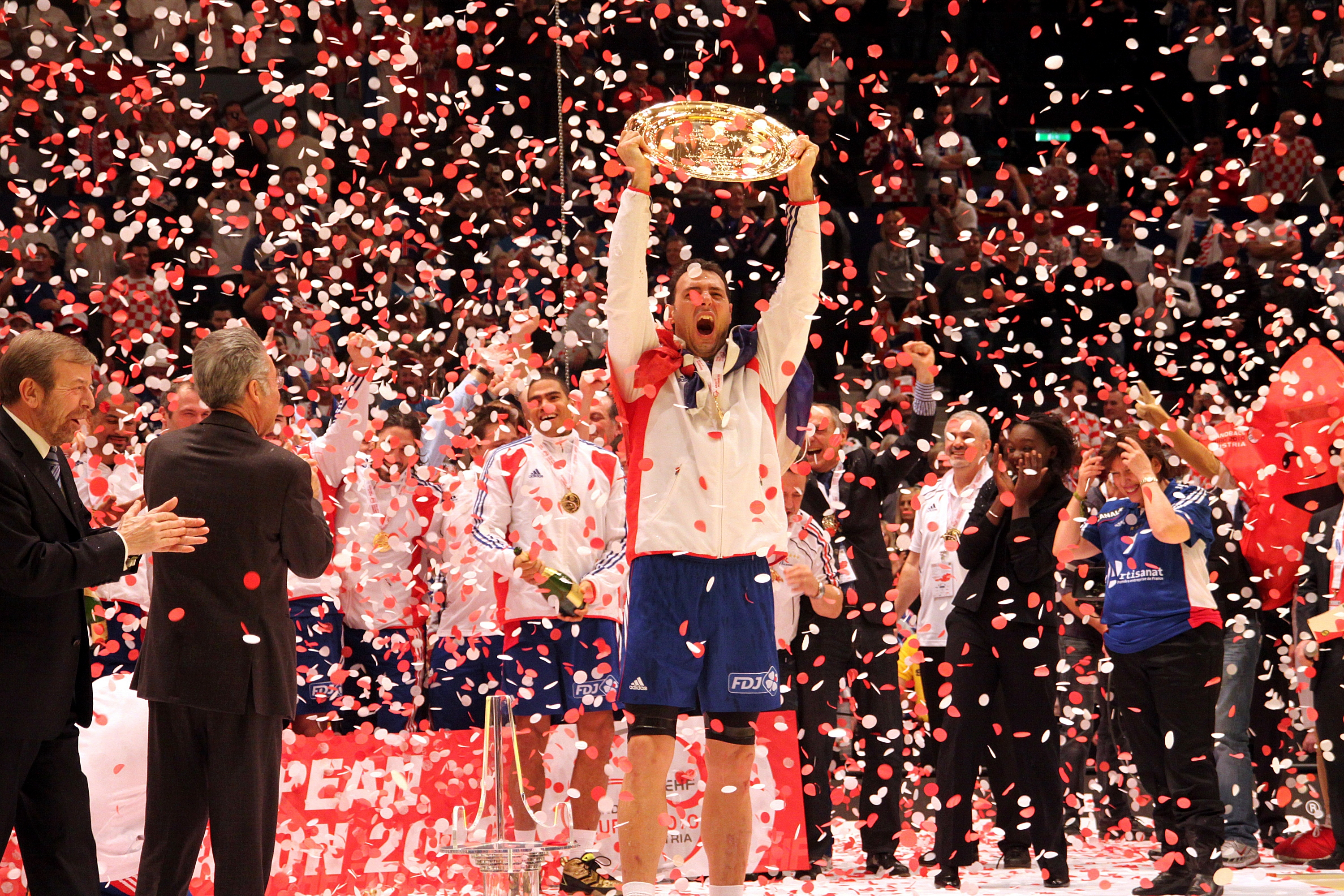 The players of the France national handball team are jubilant about the first place in the 2010 European Men's Handball Championship